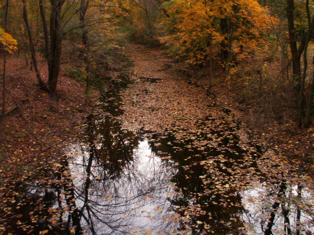 Lower Vine Brook in Lexington, Massachusetts